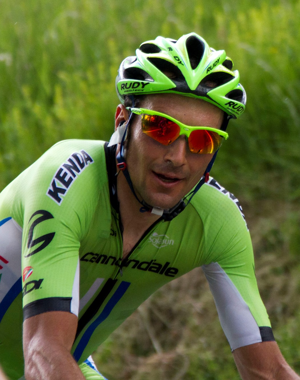 334 basso